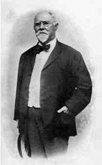 Isaac Delgado, New Orleans businessman and philanthropist